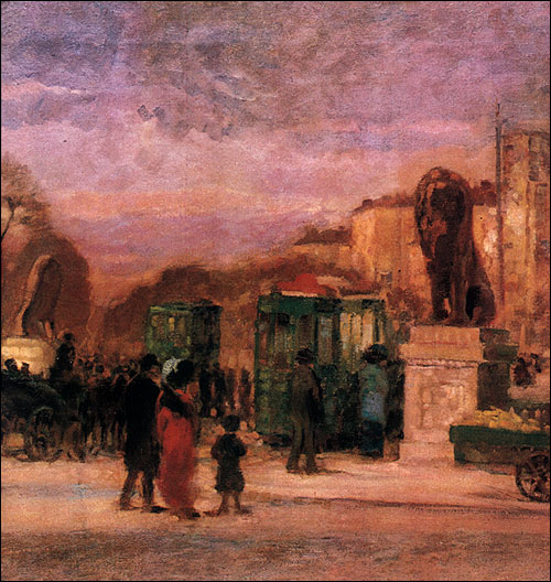 Painting "Lions' Bridge" by the Bulgarian artist Nikola Petrov (1881 - 1916)